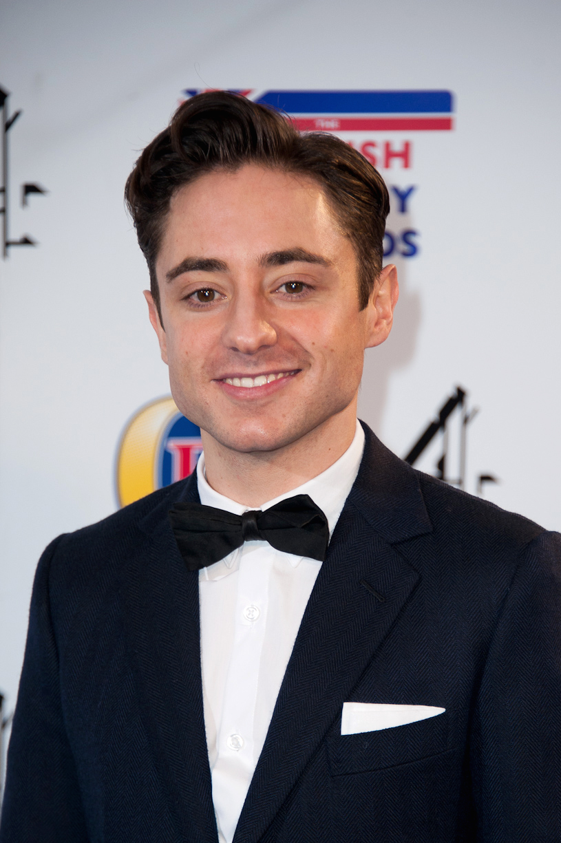 Ryan Sampson at the 2013 British Comedy Awards, 12 December 2013